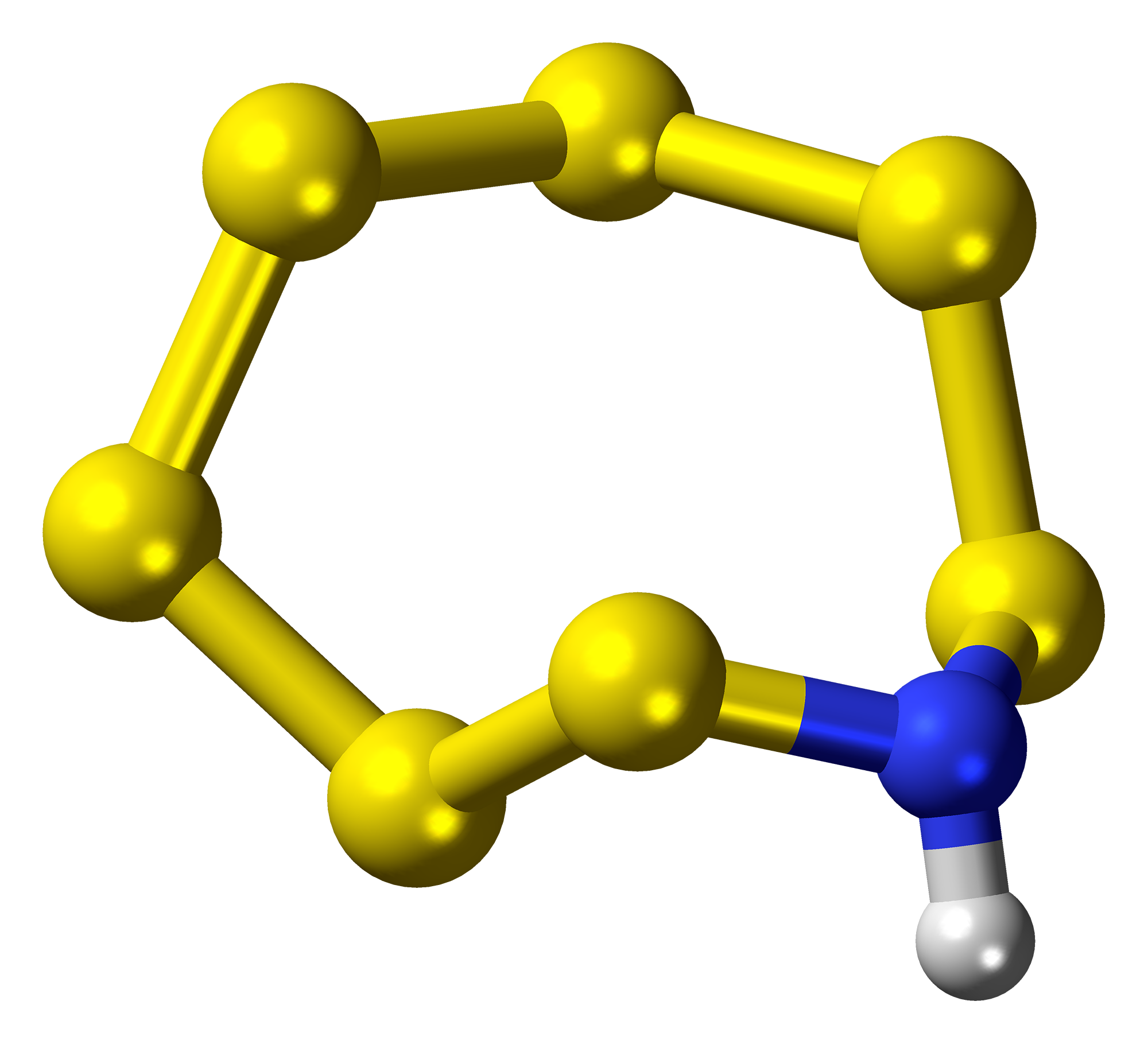 Ball-and-stick model of the heptasulfur imide molecule, a compound with a similar structure to elemental sulfur. Color code: Hydrogen, H: white Nitrogen, N: blue Sulfur, S: yellow